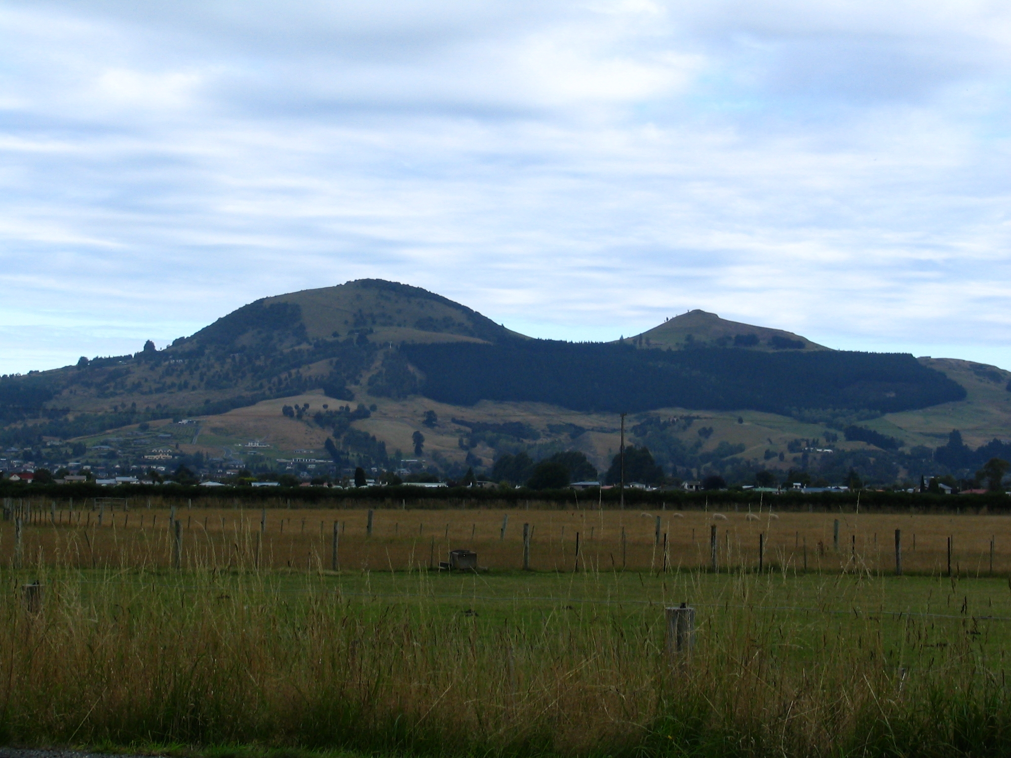 Saddle Hill, New Zealand, viewed from the Taieri Plains, query Mosgiel-Outram Road.